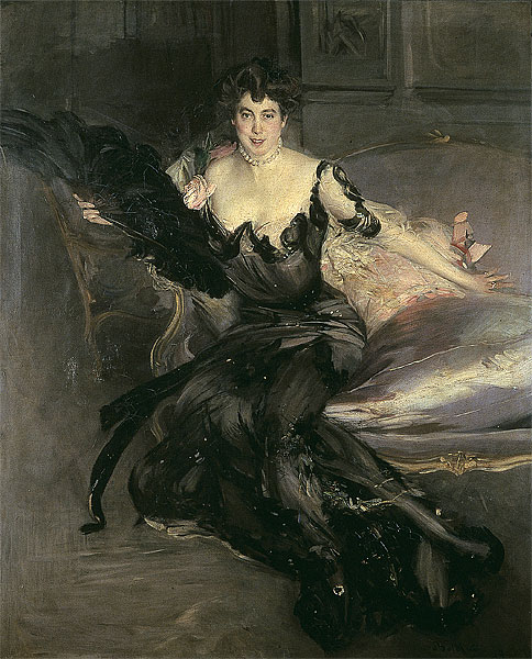 Portrait of a lady, Mrs Lionel Phillips, Dublin City Gallery The Hugh Lane